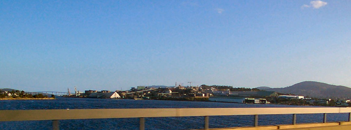 Picture of the Zinifex Zinc Works, the Incat Shipyard and the Tasman Bridge, Hobart. Taken from the Bowen Bridge. Took picture myself, no copyright.